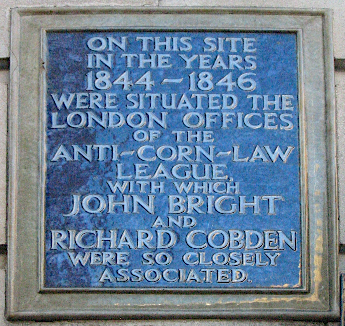 Anti-Corn-Law League plaque on 69 Fleet Street, London EC4. (Facing Whitefriars Street)